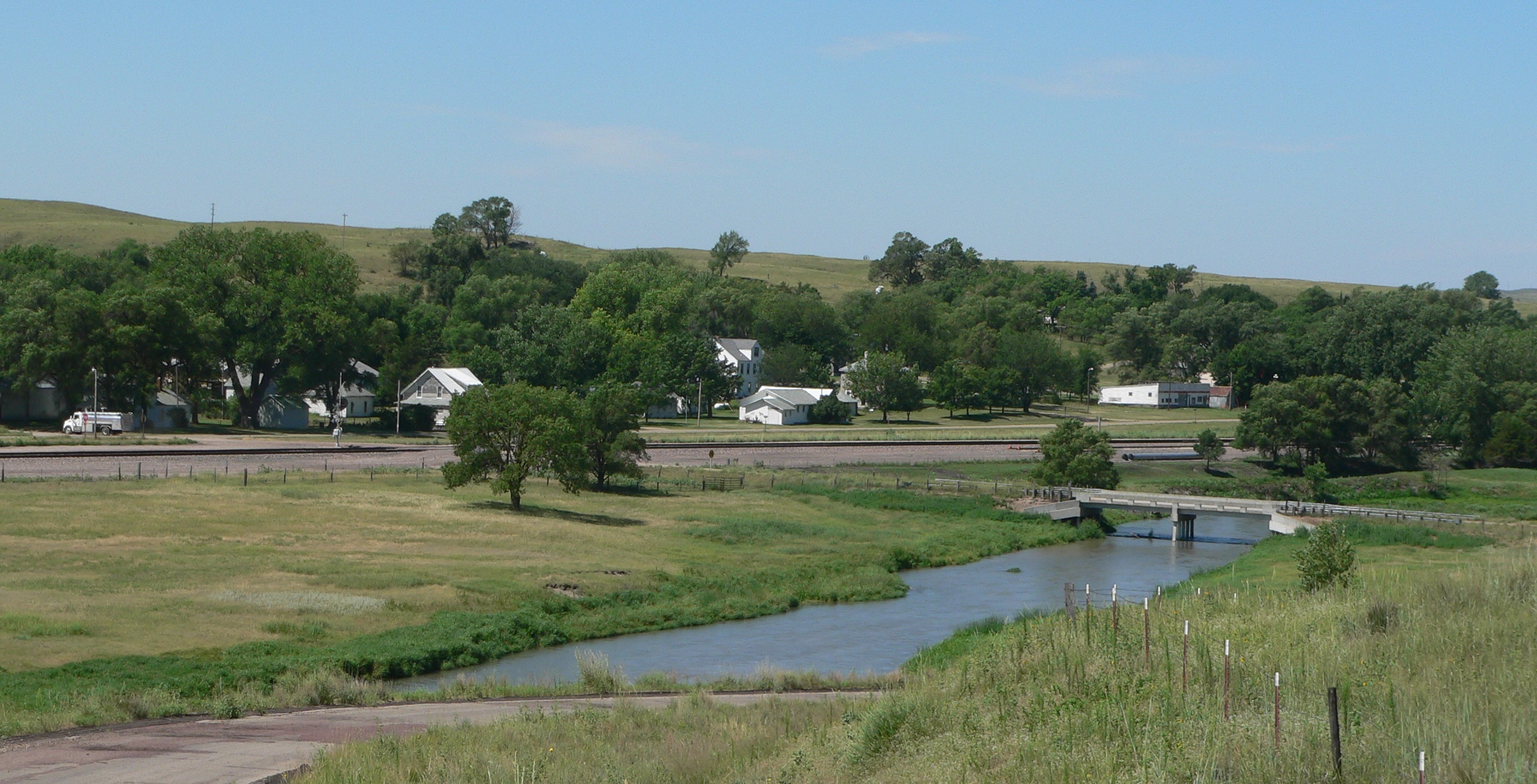 Seneca, Nebraska, seen from the southeast. The Middle Loup River is visible in the foreground.